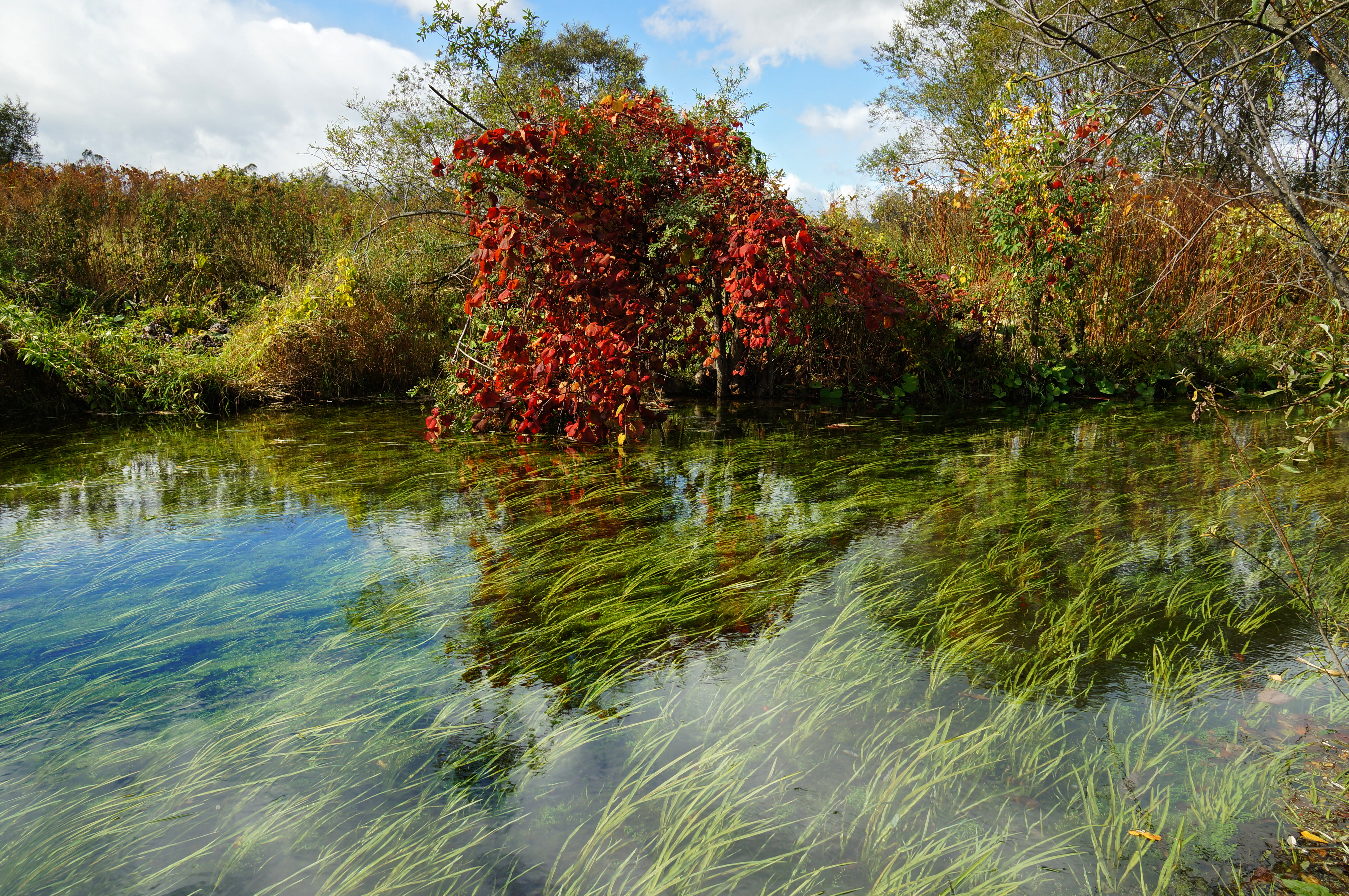 Rokka no Mori in Nakasatsunai, Hokkaido prefecture, Japan.